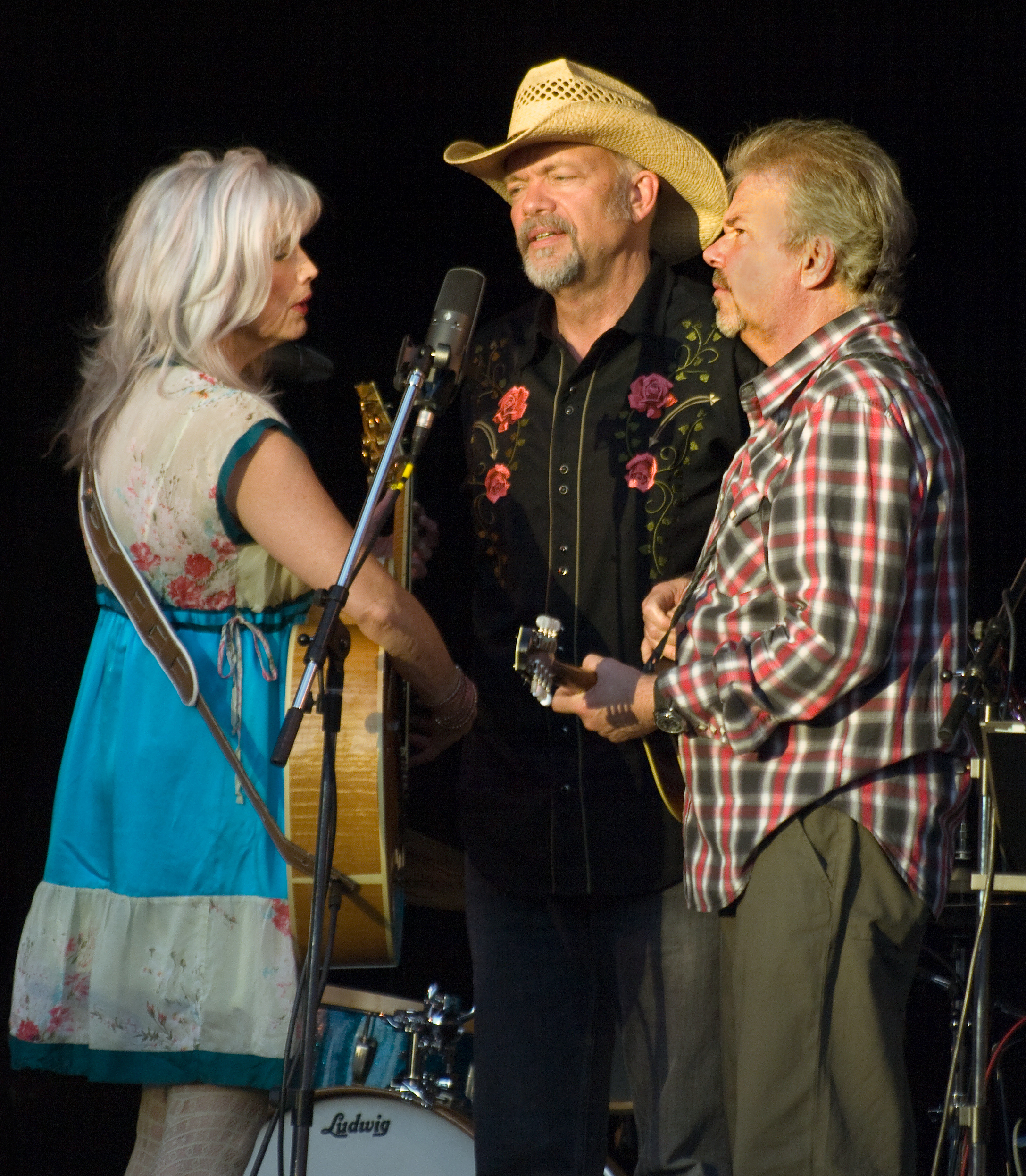 Emmylou Harris, Phil Madeira and Ricky Simpkins performing at the 2008 Woodland Park ZooTunes festival, Seattle WA